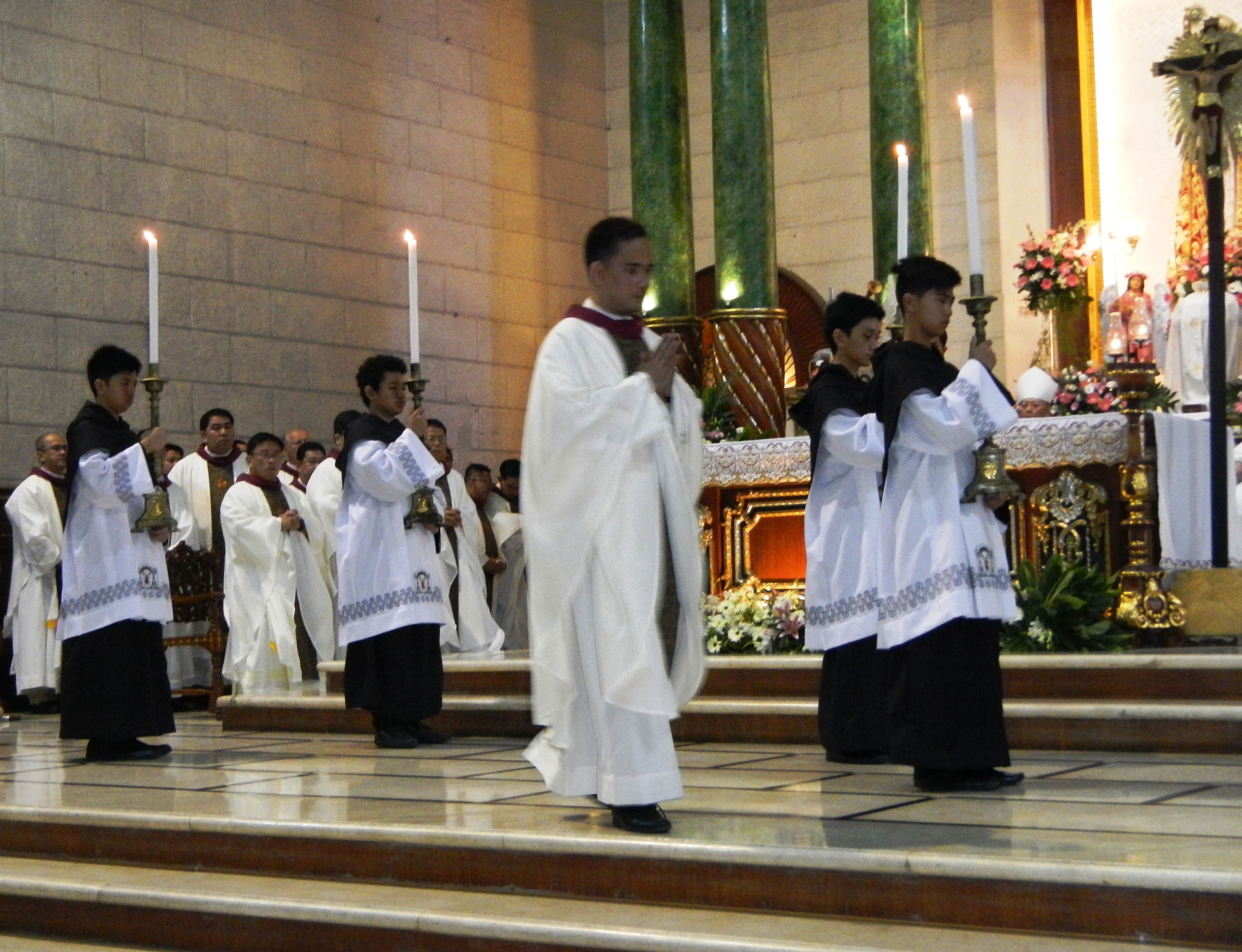 2014 Saint Augustinus Fiesta Patronales (St. Augustine Parish Church of Baliuag) - St. Augustine Parish Church of Baliuag, the photos taken during the August 28, 2014 Concelebrated Solemn Holy Mass on the patron's Feast day - 2014 Saint Augustinus Fiesta Patronales St. Augustine Parish Church of Baliuag - See detailed description of these photos in Talk page.